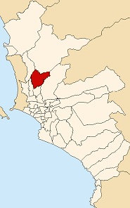 Map of Lima highlighting the Comas district in eastern Lima.